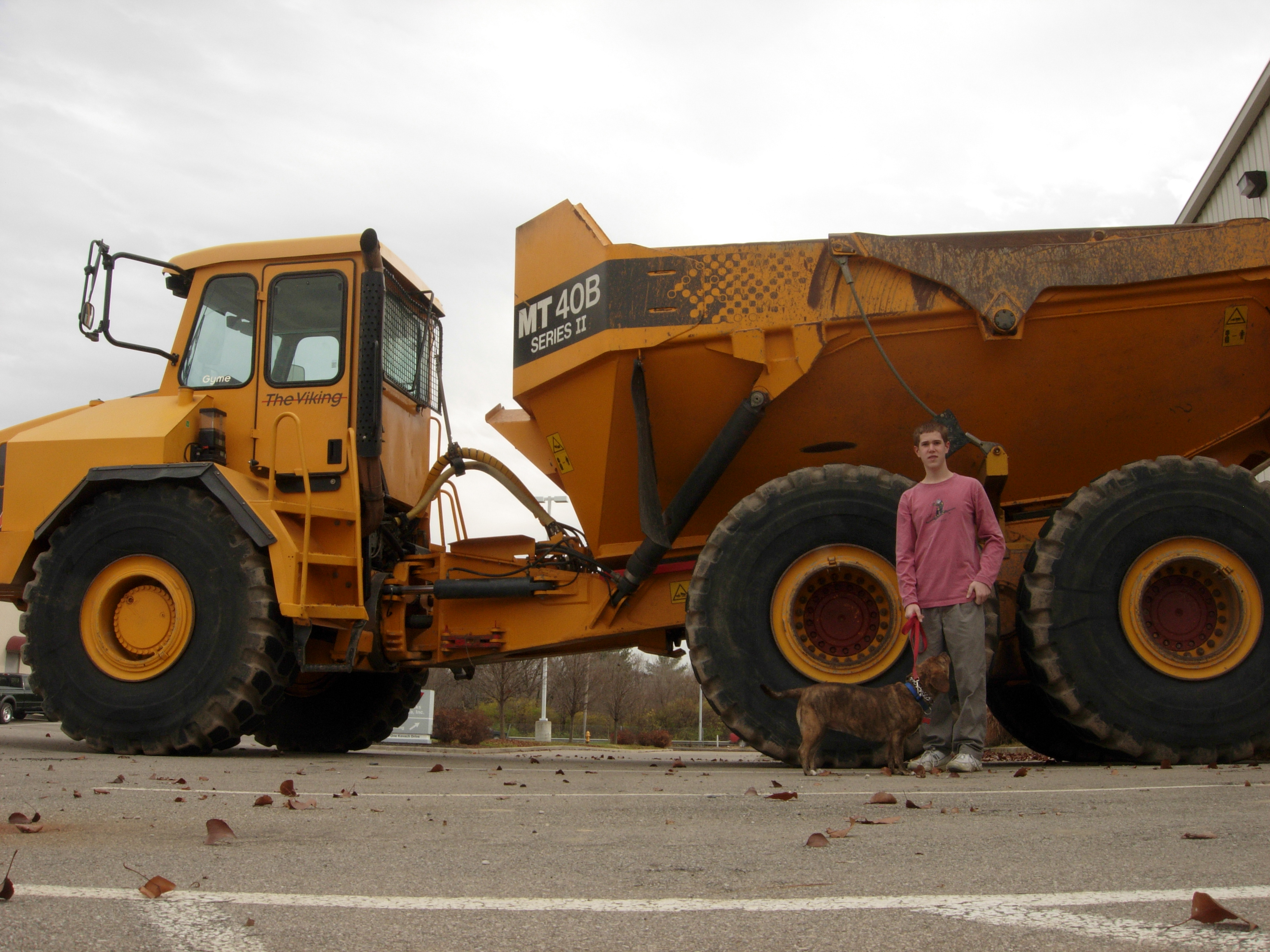 Moxy Trucks is a Norwegian company that makes ridiculously large trucks. You Cincinnatians may know this place from driving past it on I-75 southbound through Lockland (just past exit 12). That is Moxy's North American headquarters.